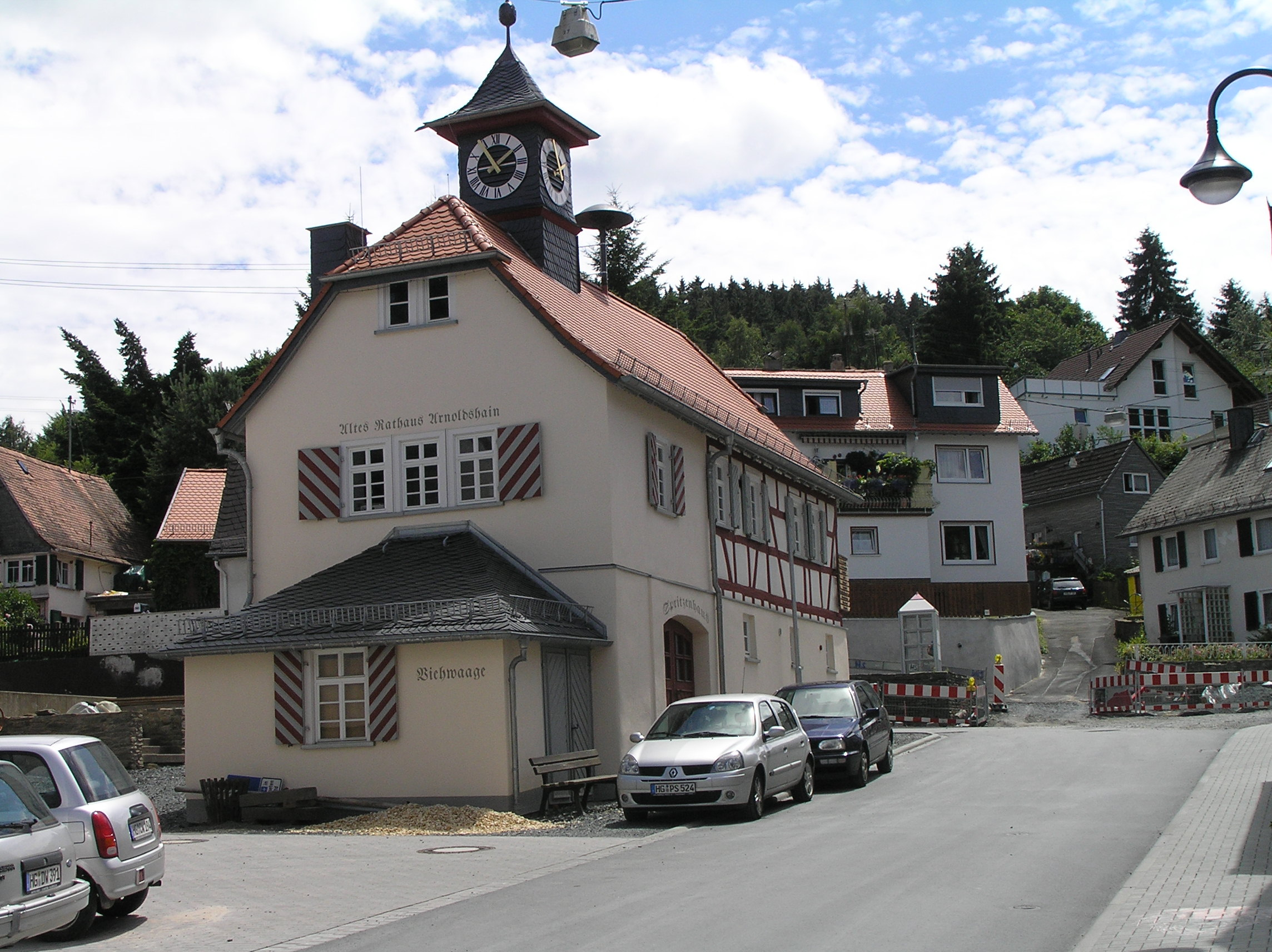 Altes Rathaus Arnoldshain